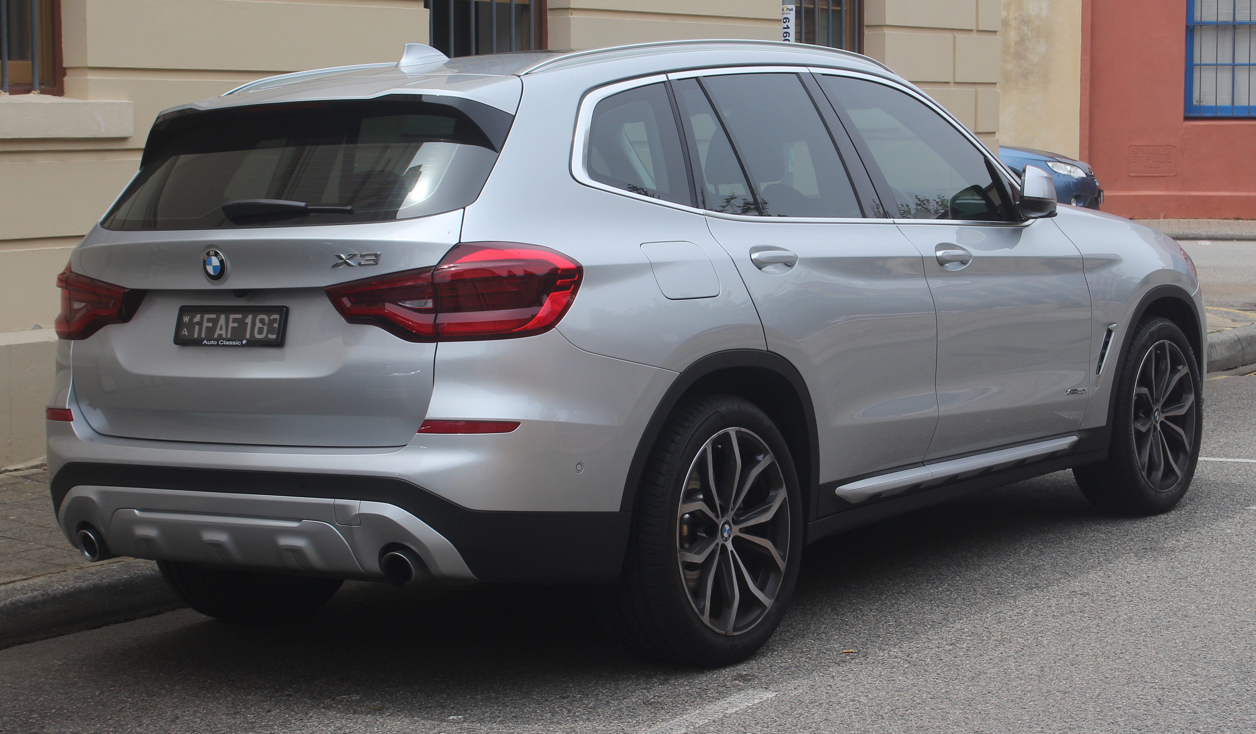 2018 BMW X3 (G01) xDrive30i wagon. Photographed in Fremantle, Western Australia, Australia.